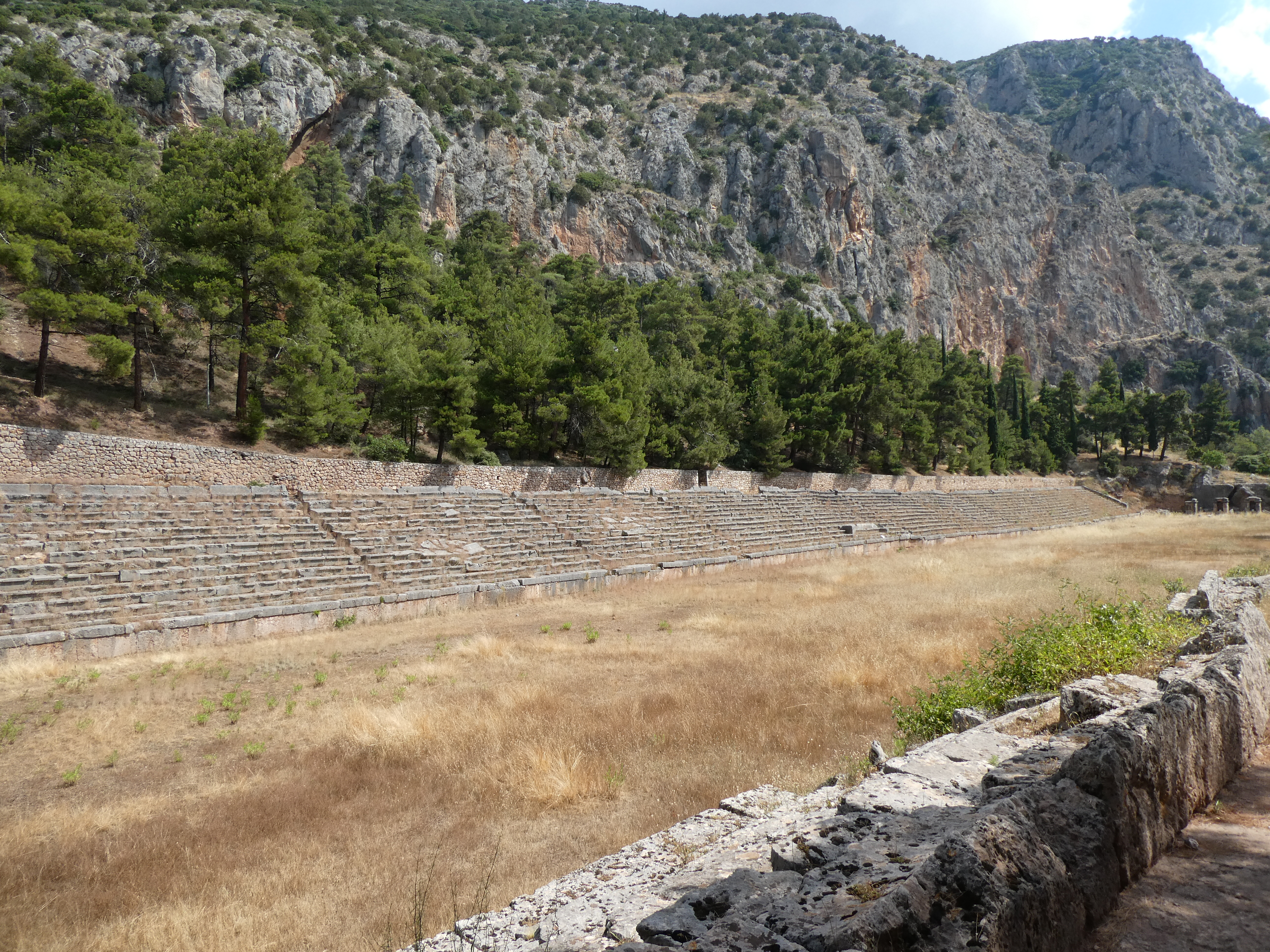 The stadium is in the mountains